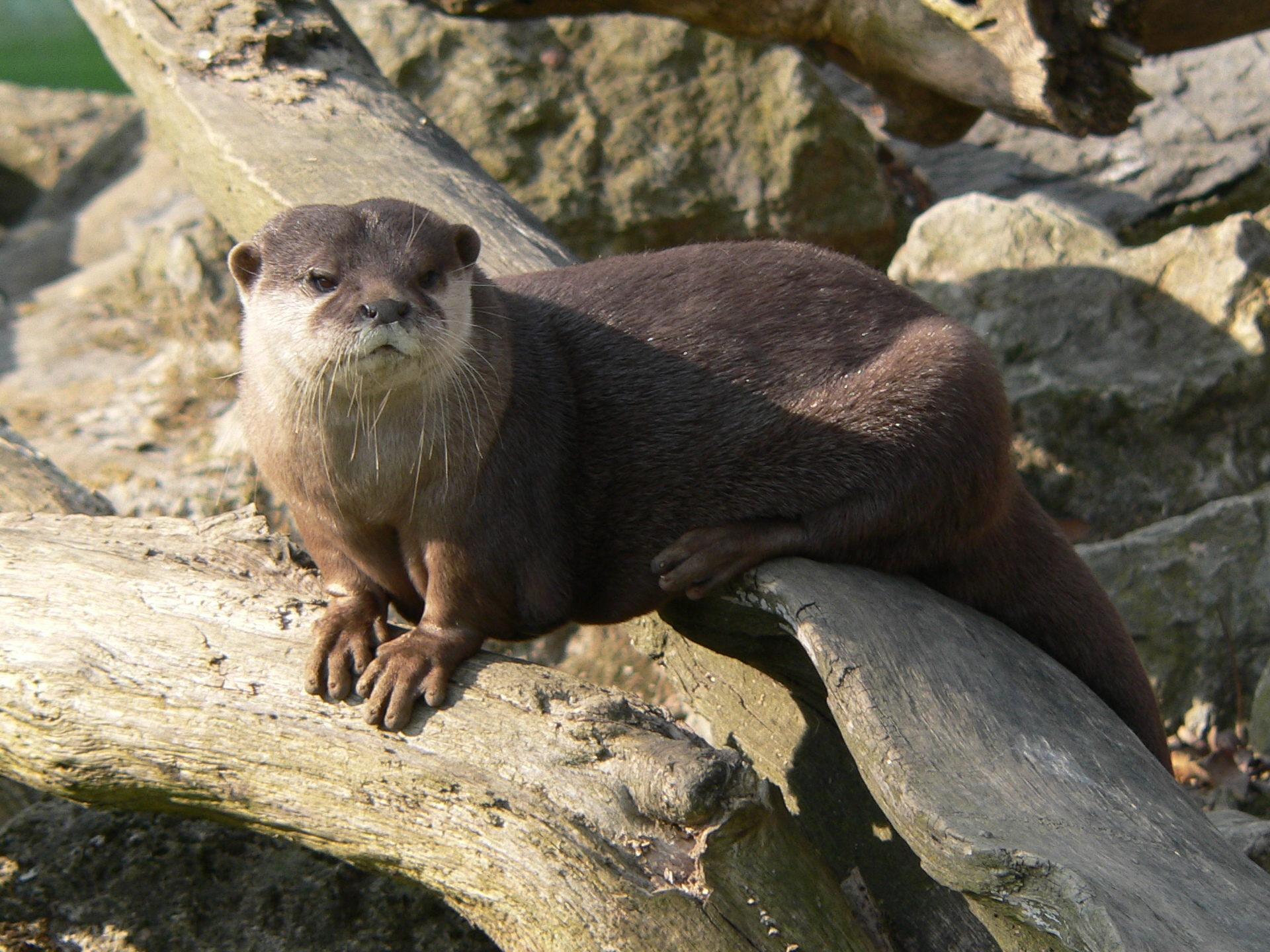 Oriental small-clawed otter (amblonyx cinerea) from the Zagreb Zoo